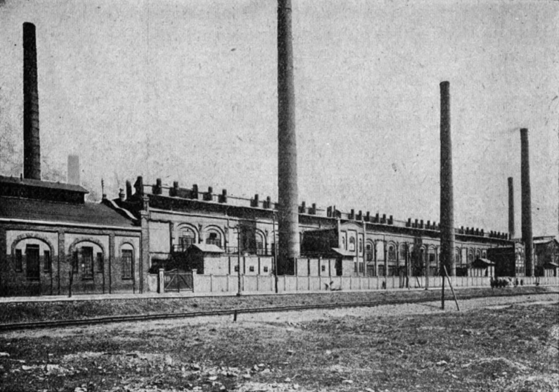 The zinc smelter of Zakłady Hohenlohego in Wełnowiec.